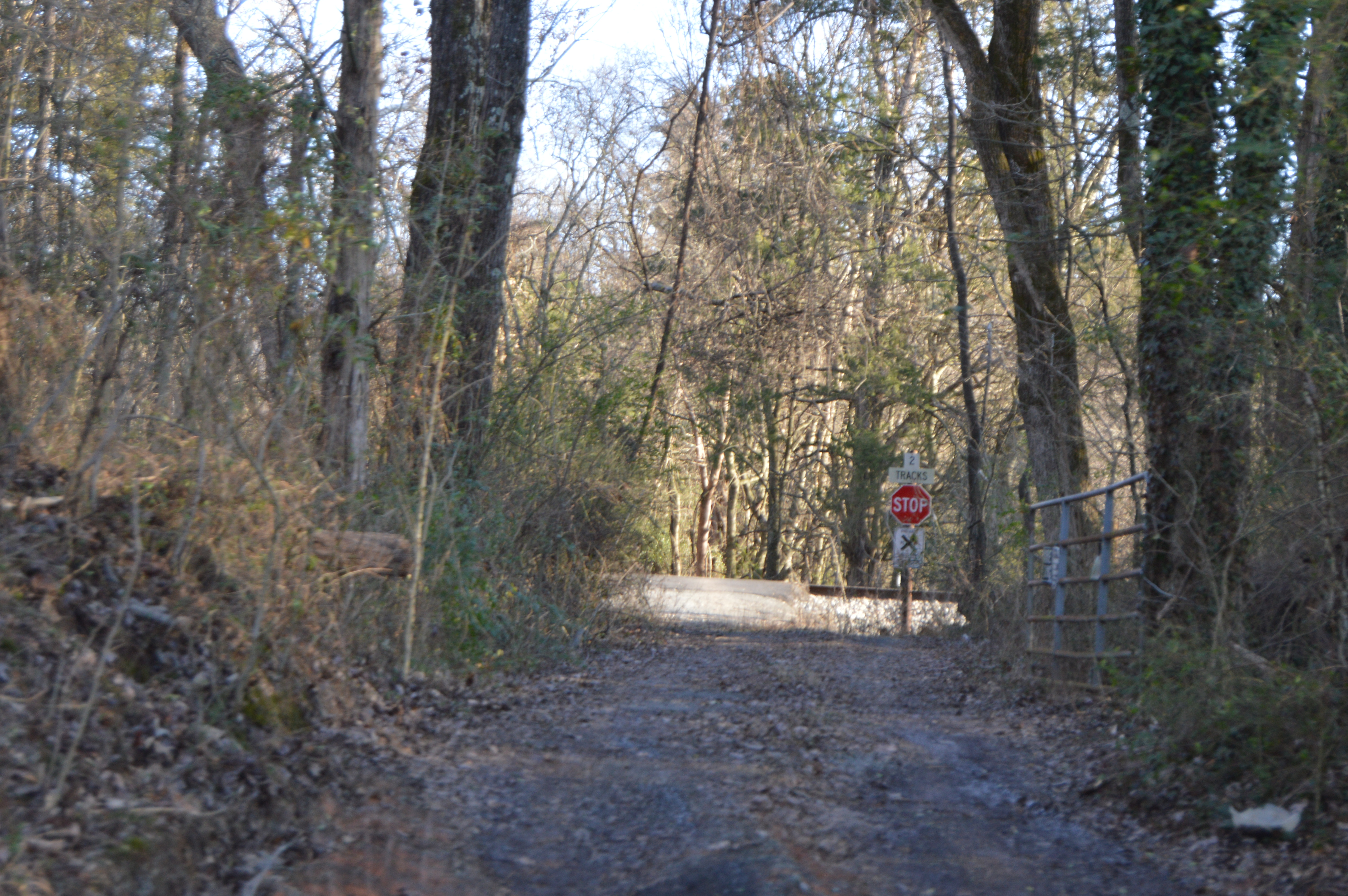 Entrance to the Burlington property, located along State Route 20 northwest of Gordonsville in Orange County, Virginia, United States. The estate is listed on the National Register of Historic Places.